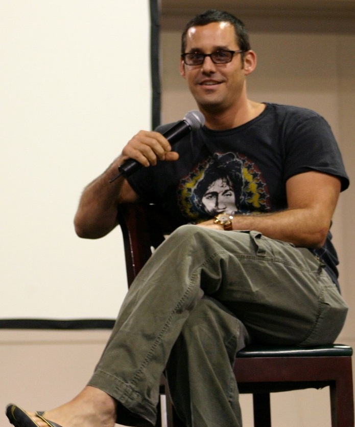 American actor Nicholas Brendon at the Oakland Super SlayerCon.